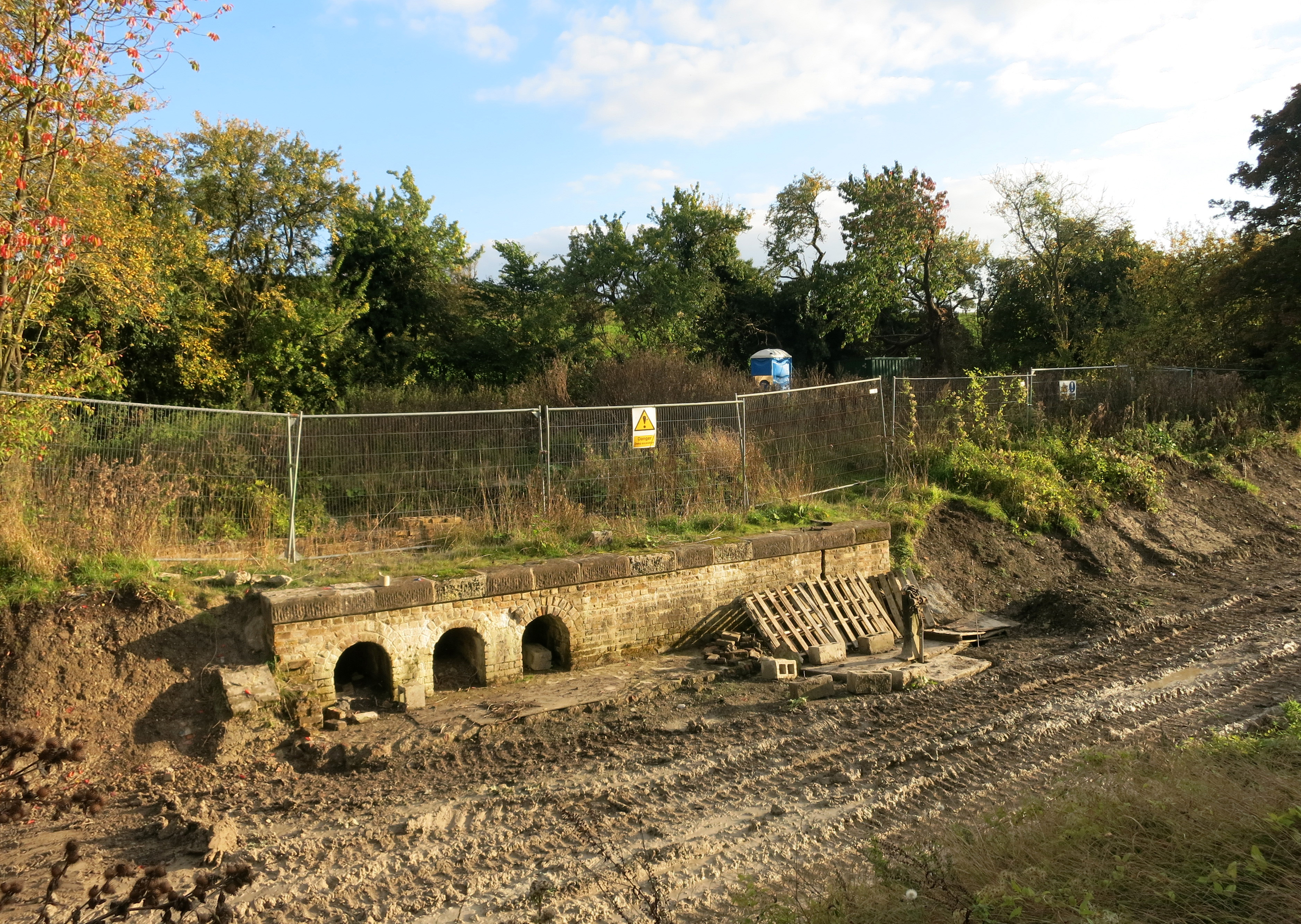 The remains of Whitehouses pumping station on the Wendover Arm Canal, England, following excavation in 2015